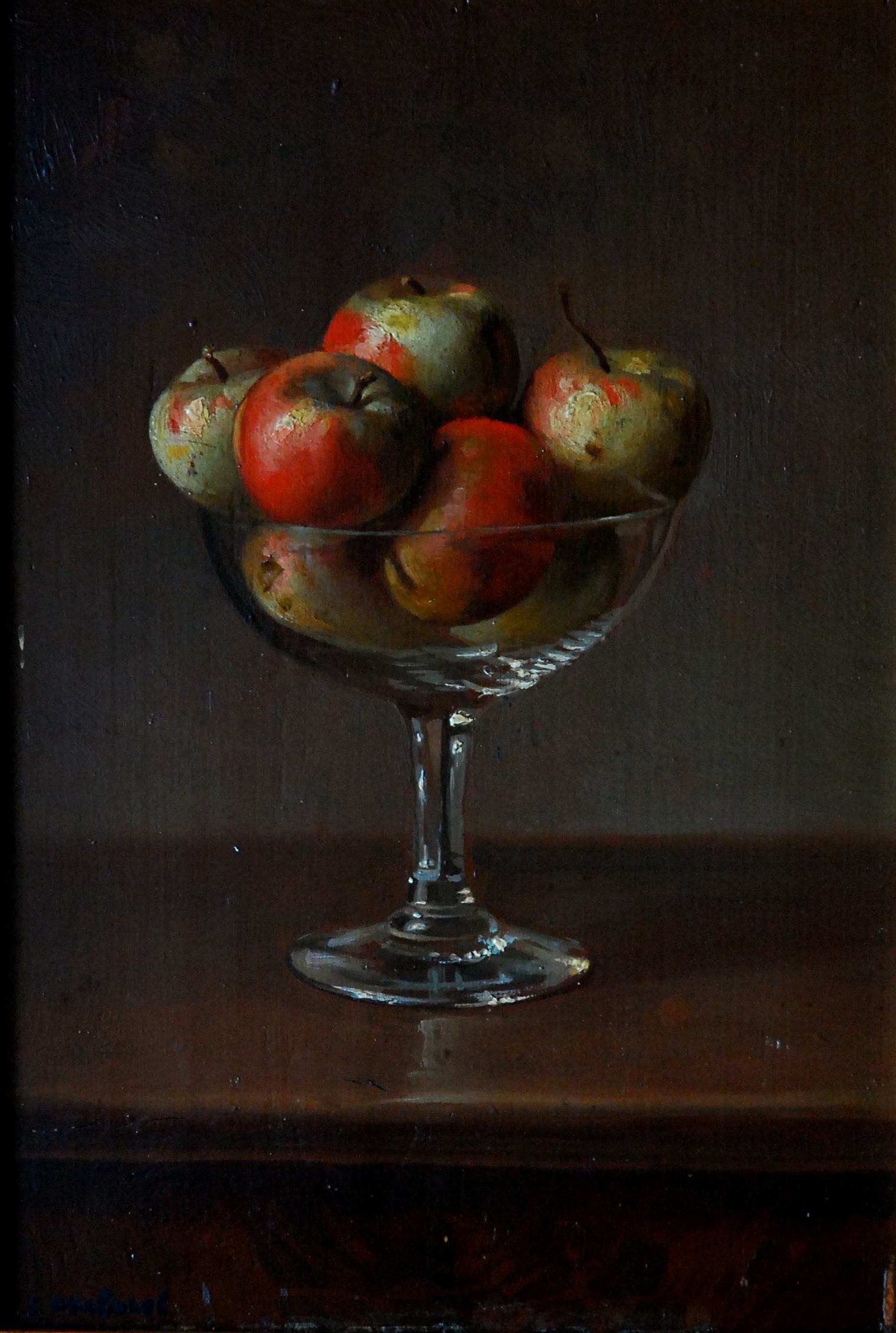 A painting by my great grandfather Carbonnel